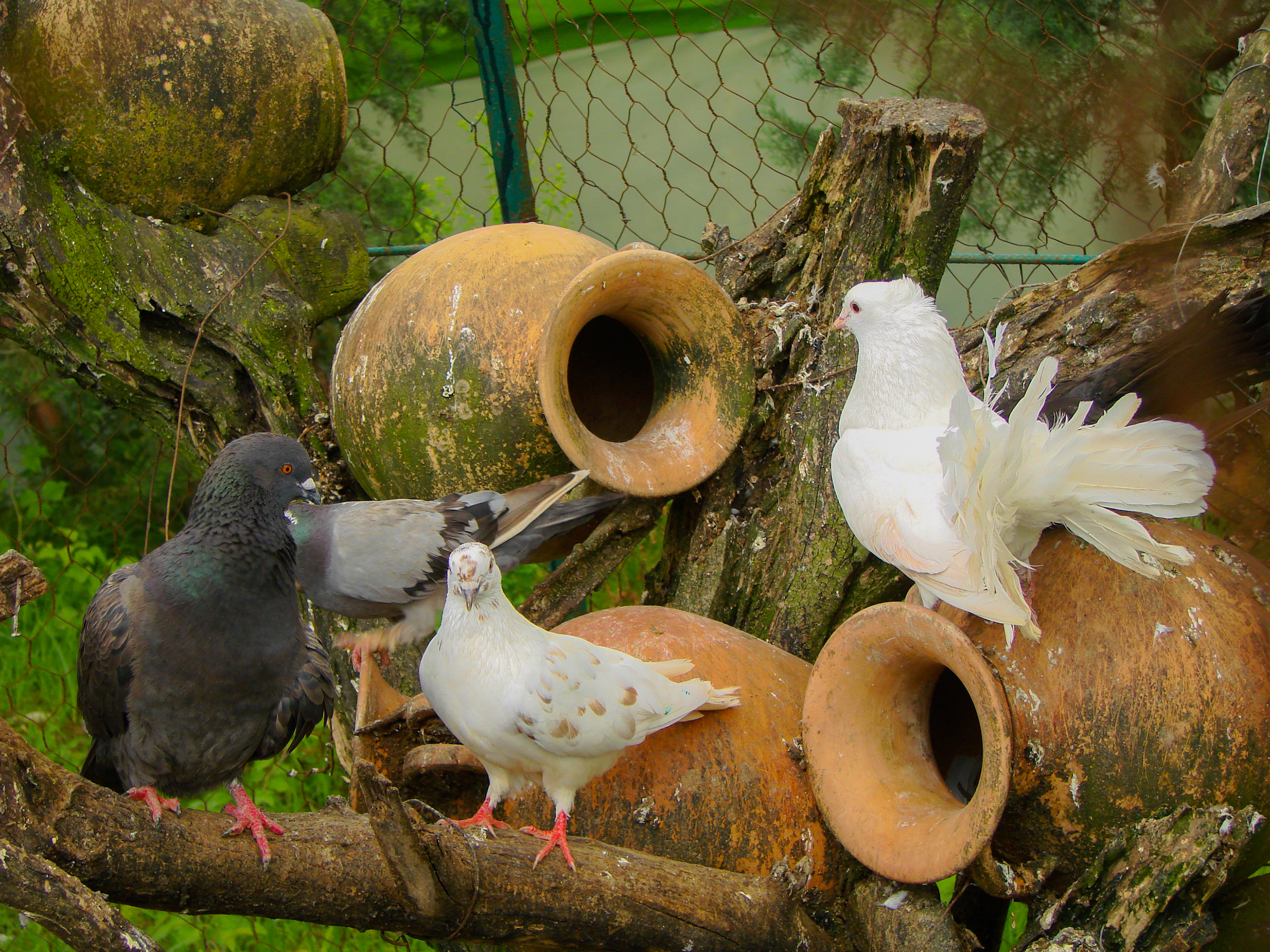 Shahrak-e Namak Abrud is a touristic village and has an aerial tramway which starts at the sea level near the shores of the Caspian Sea and ends on the top of the Alborz heights crossing dense forest area of northern Iran. There are numerous villa cities around it which form a vacation region for the people of Tehran.